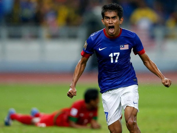 Azamuddin Akil celebrating his debut national goal with passion.